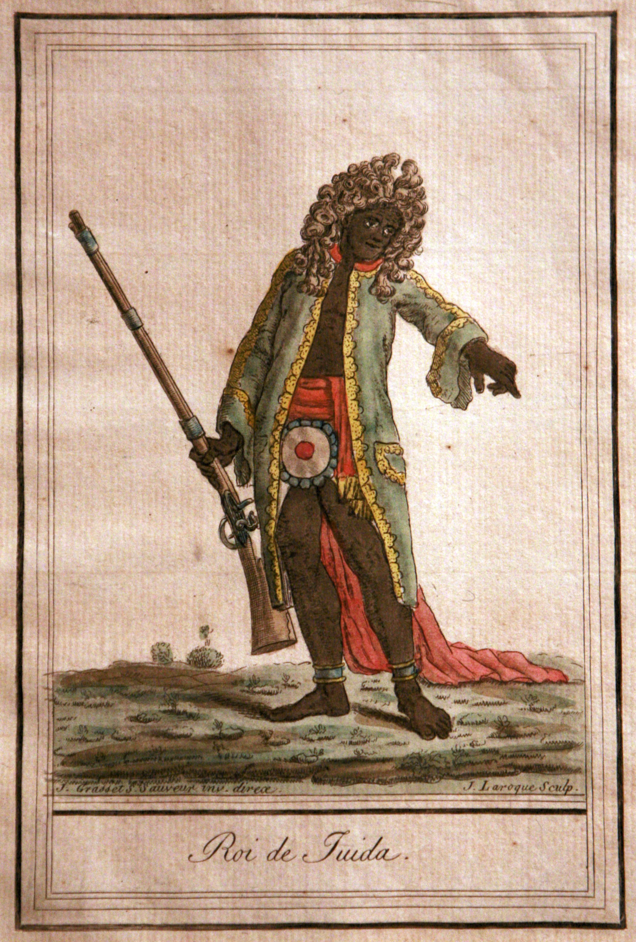 King of Whydah, after Jacques Grasset de Saint-Sauveur (1757-1810). Late 18th century. Portrait of King Haffon